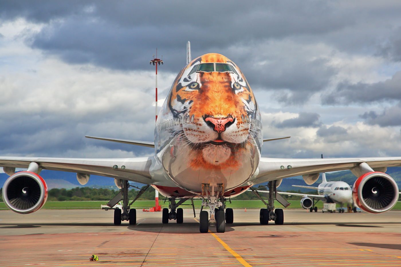 Boeing 747-400(EI-XLD) of Rossiya Airlines at Vladivostok Airport